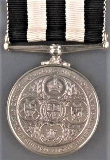 British and Commonwealth award for those who have served with the Order of St John for ten years.